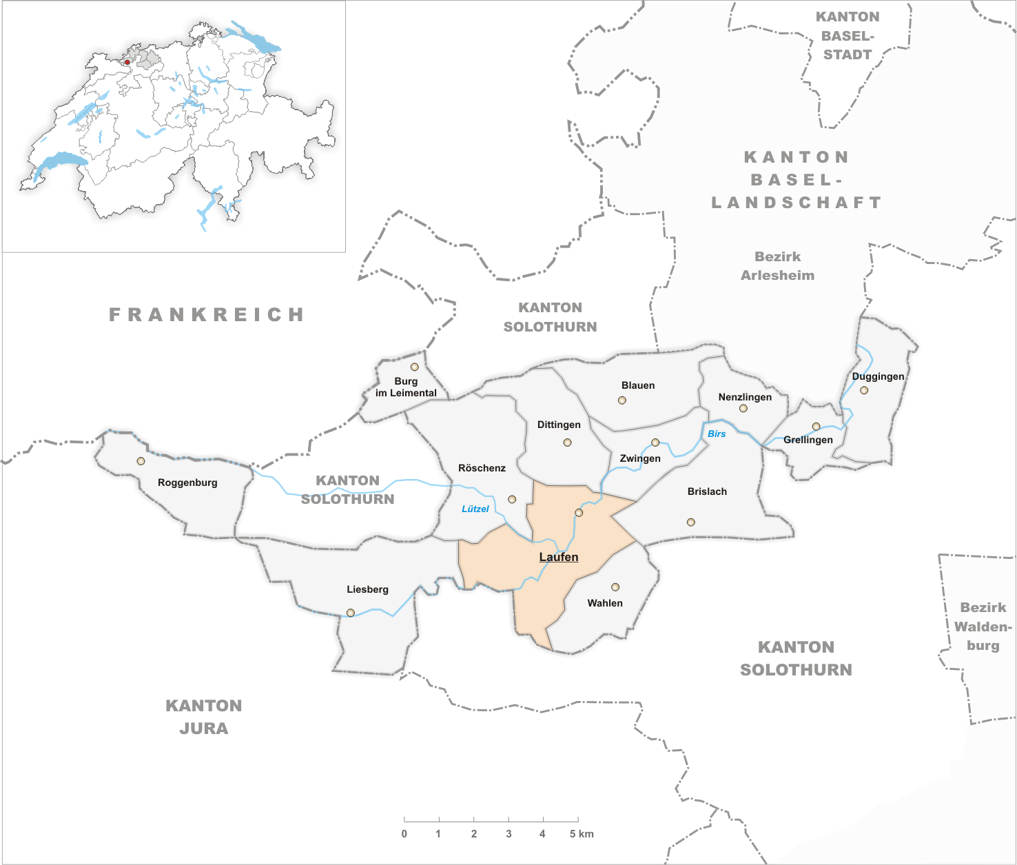 Municipality Laufen